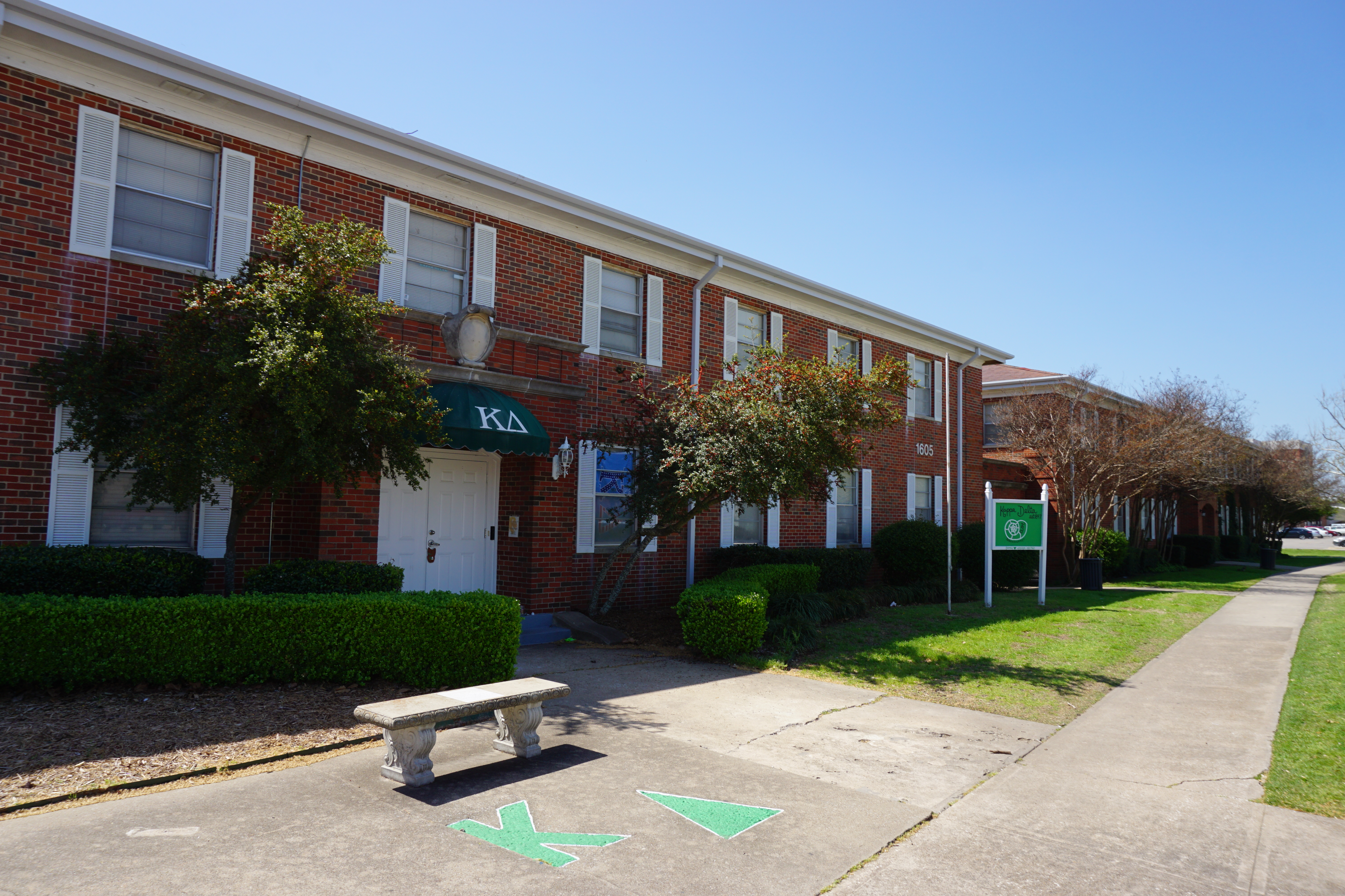 The Sororities & Womens Halls on the campus of Texas A&M University–Commerce in Commerce, Texas (United States).